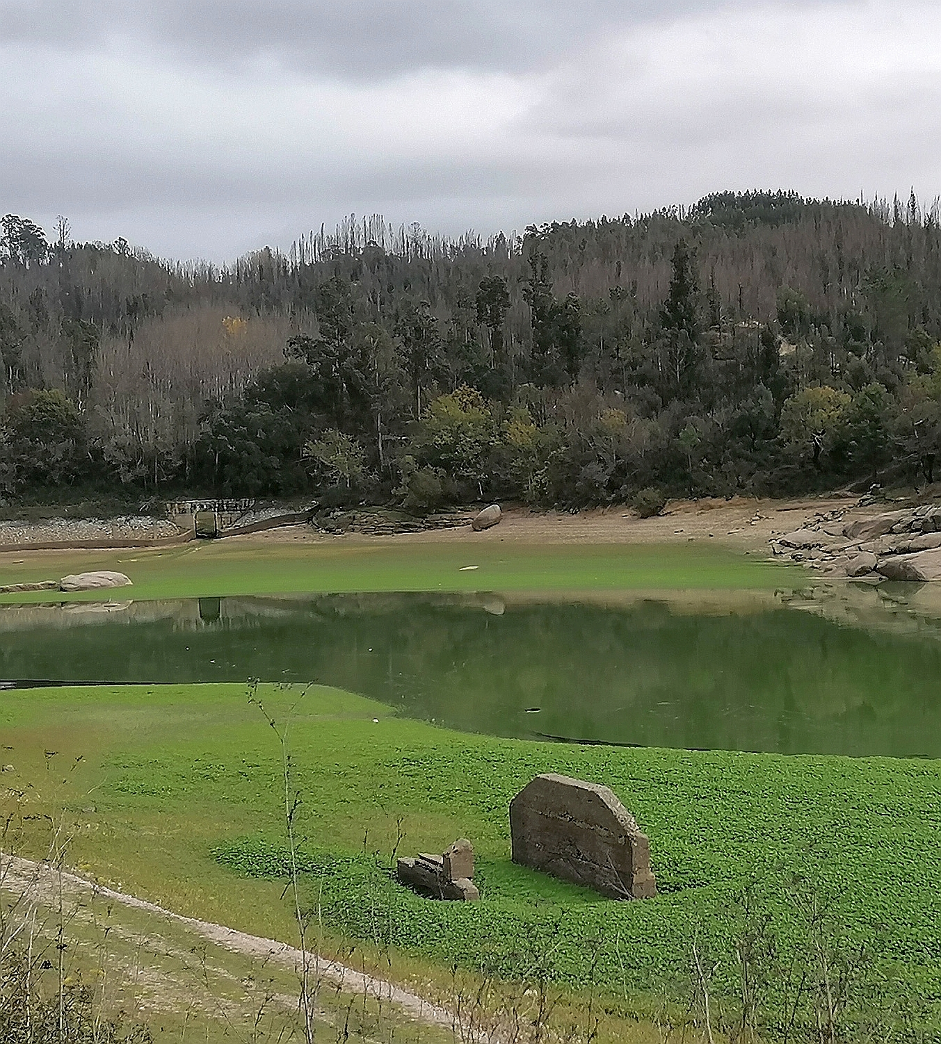 The river Dão flows into the Aguieira dam reservoir. Water levels are influenced by natural causes and the dam reservoir management.